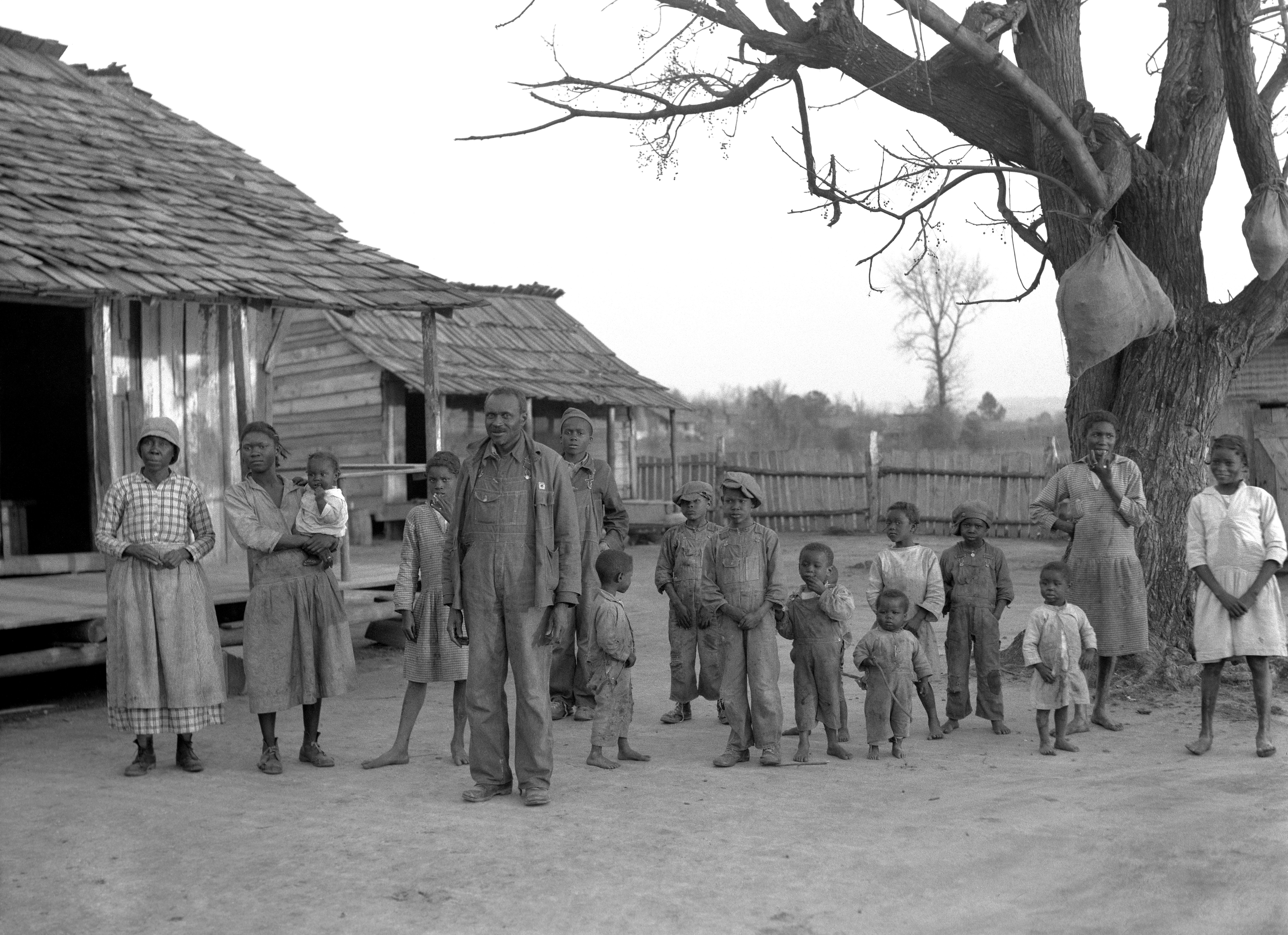 Descendants of former slaves of the Pettway plantation, Alabama, USA.